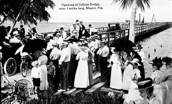 This image was taken from the Florida Photographic Collection, where it is image N028477. Below is its description: [Opening of Collins Bridge : Miami, Florida] [picture] Leader: kmKa0c Fixed field data: kgbz Fixed field data: 961119s1913 Local call number: N028477 Title: [Opening of Collins Bridge : Miami, Florida] [picture] Publication info: 1913. Physical descrip: 1 photonegative : b&w ; 4 x 5 in. Series Title: (General collection) General Note: Photonegative of a postcard. General Note: The bridge opened officially on June 12, 1913. Geographic term: Collins Bridge (Fla.) Geographic term: Miami (Fla.)--Buildings, structures, etc.